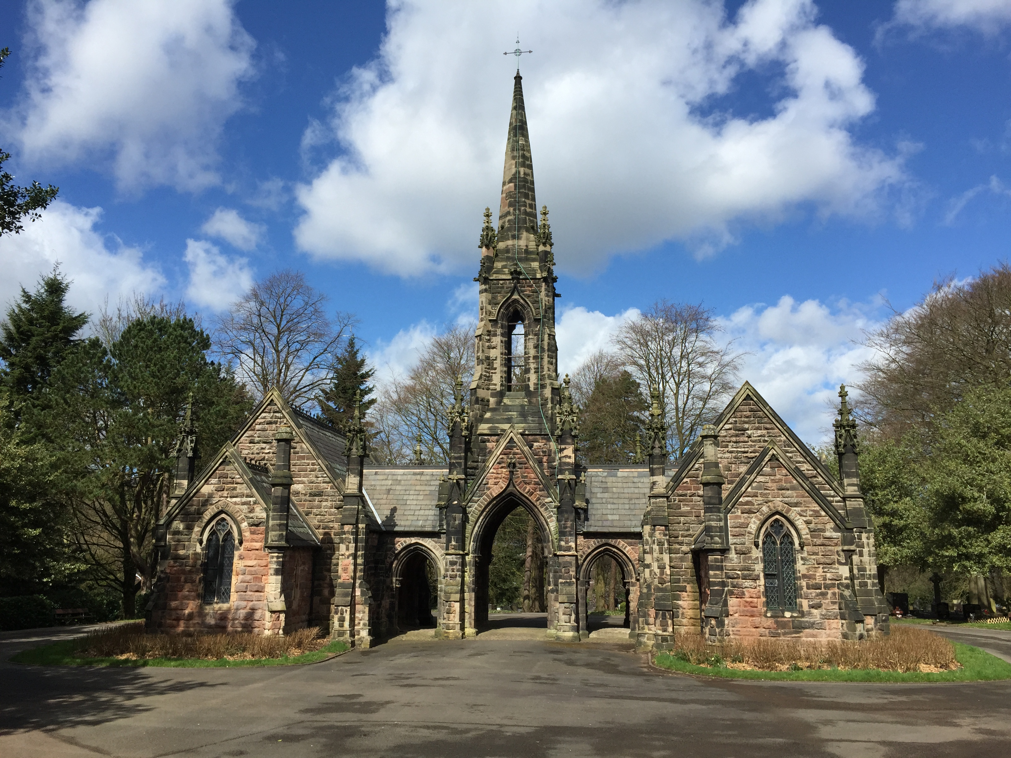 Newcastle-under-Lyme cemetery chapels